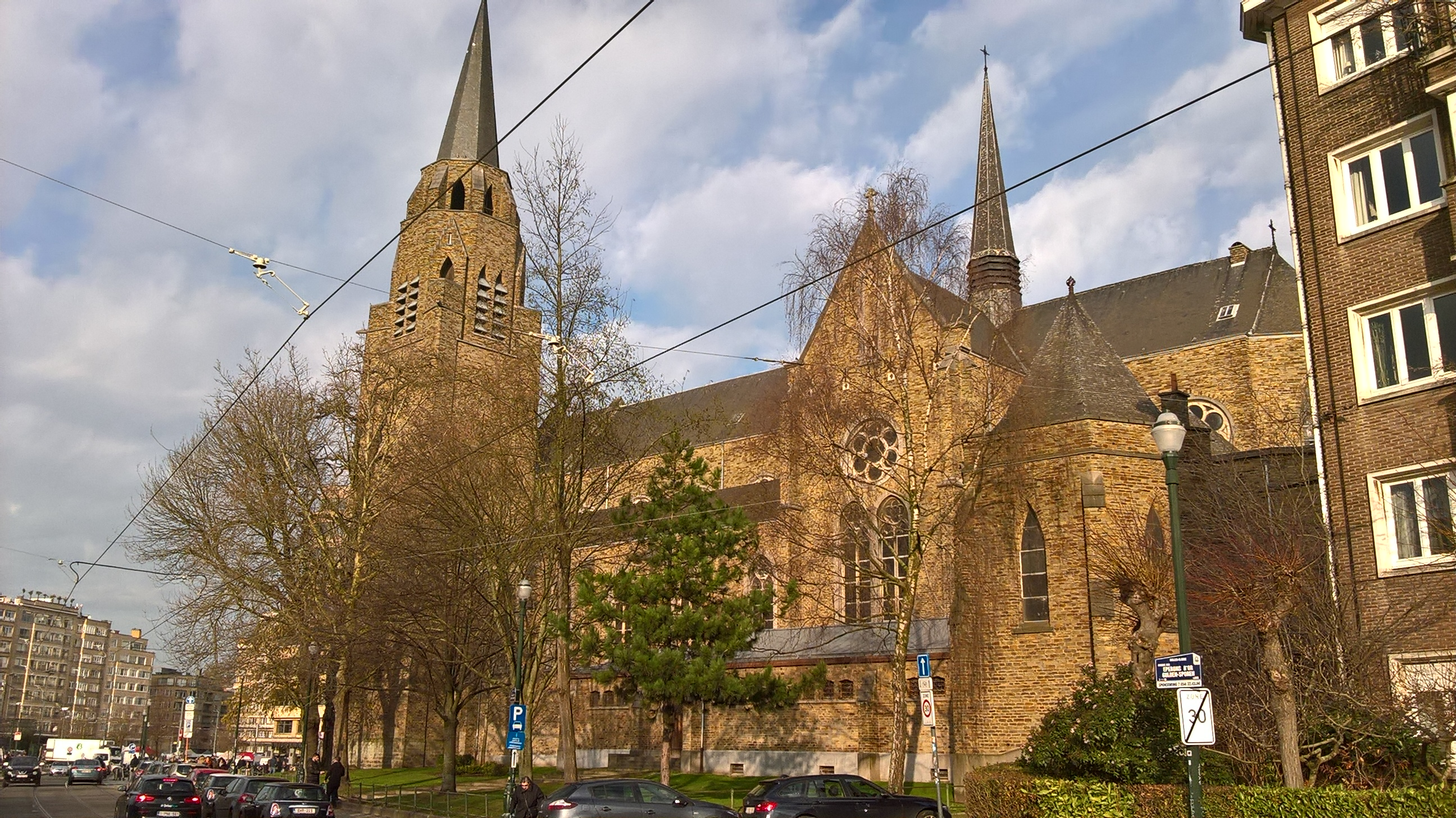 Church Ste. Croix/Heilig Kruis in Ixelles/Elsene near Place Flagey/Flageyplein